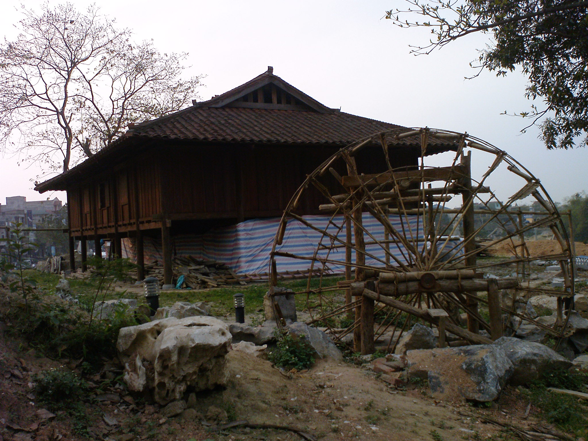 Museum of Ethnic Culture Vietnam, Thái Nguyên, Vietnam